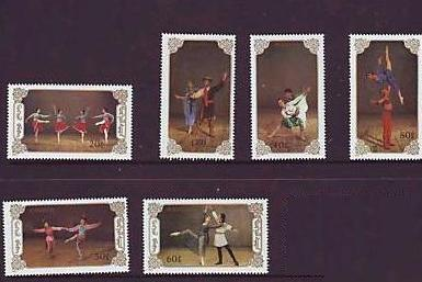 Ballet postage Mongolia